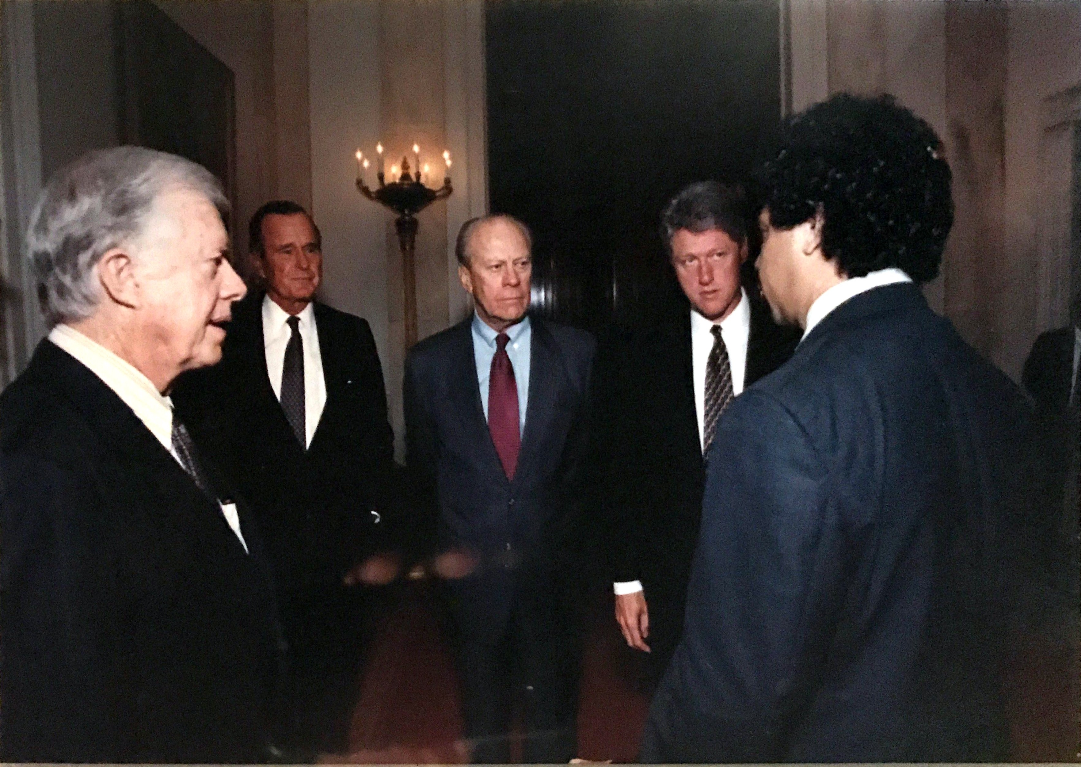 Steve Rabinowitz briefs Presidents (left to right) Jimmy Carter, George H.W. Bush, Gerald Ford and Bill Clinton moments before Clinton signs the NAFTA trade agreement in the East Room of the White House Sept. 14, 1993 (White House photo/Robert McNeely)